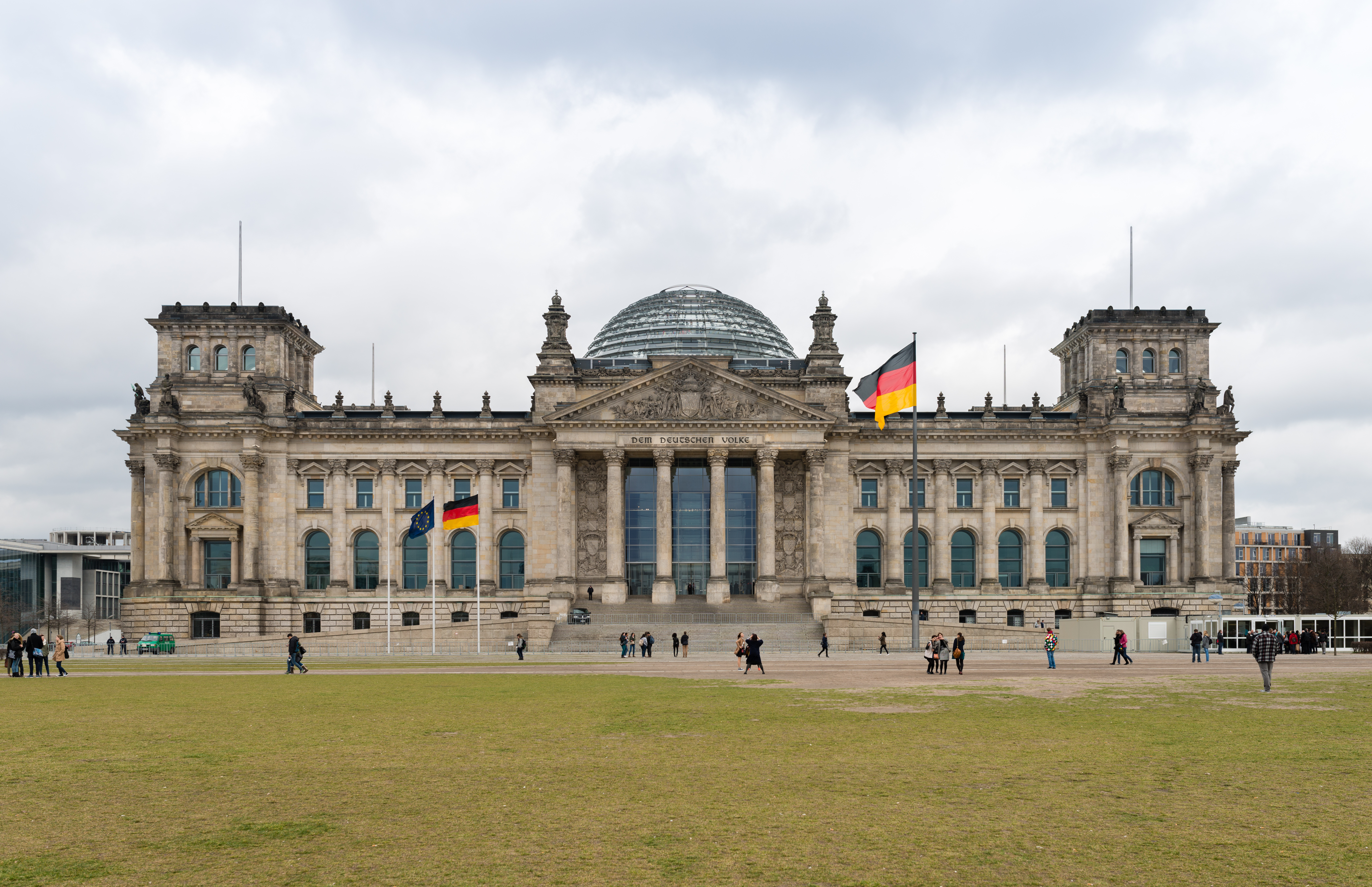 Reichstag building seen from west, Berlin, Germany.